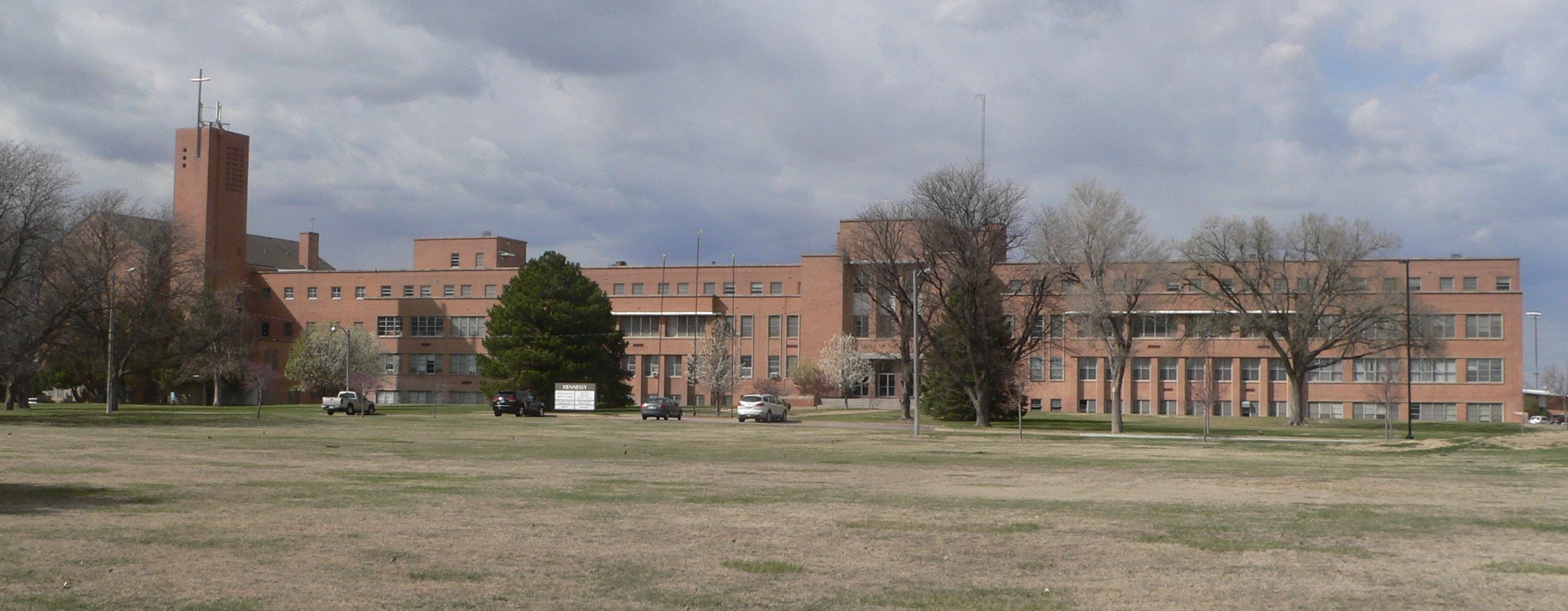 Hennessy Hall, located in northern Dodge City, Kansas; seen from the south.